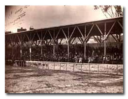 The stade Mayol during its inaugural ceremony in 1920